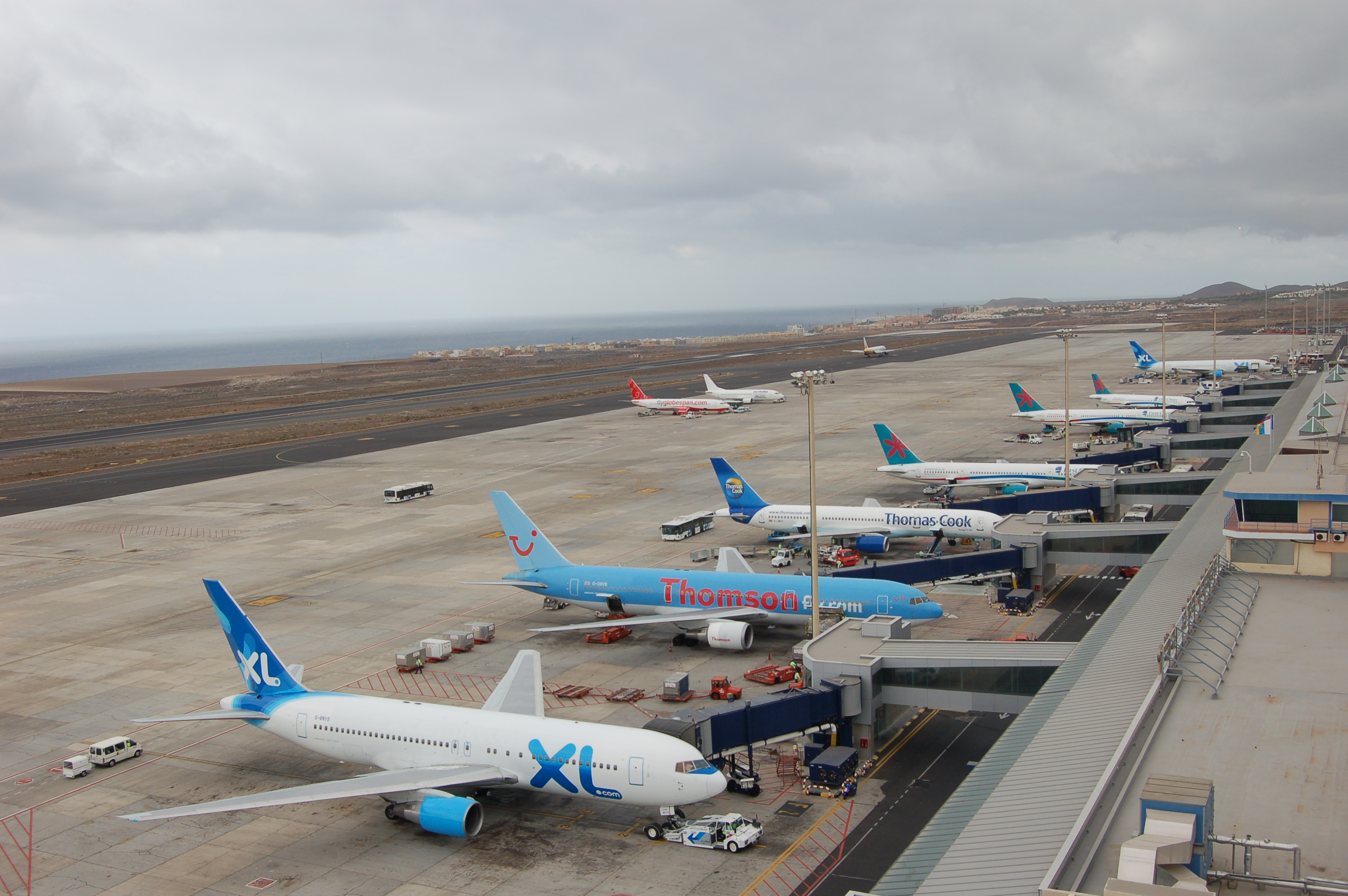 View of the platform on a busy day.